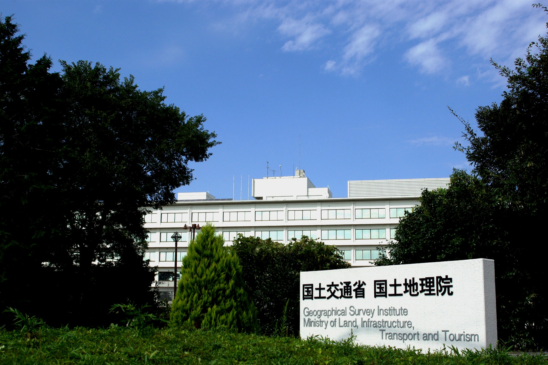 Geographical Survey Institute located in Tsukuba,Japan.